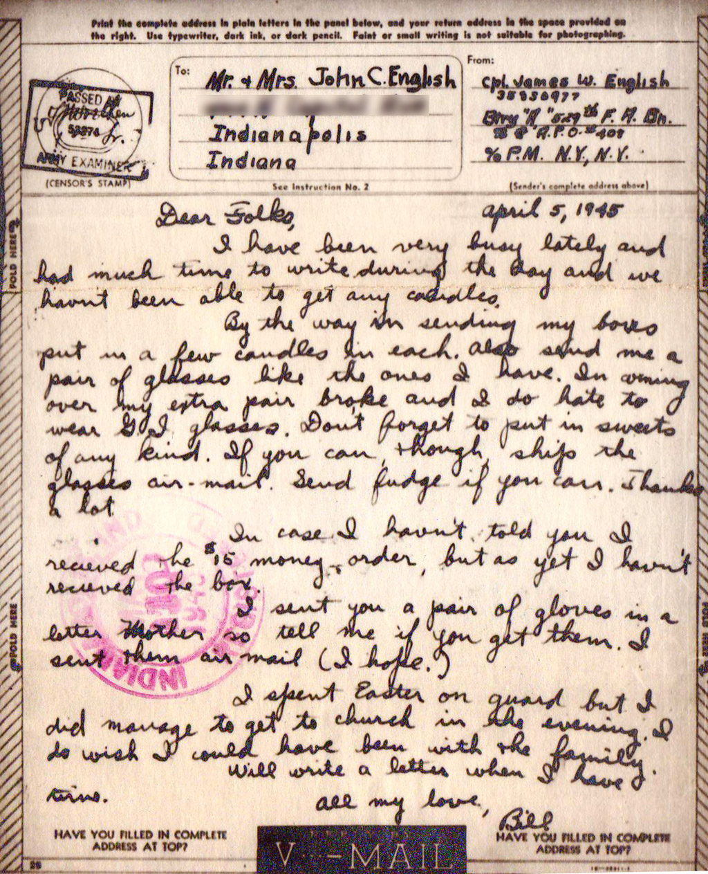 Scan of a World War II era Vmail letter. From my family archives. NathanBeach 17:15, 7 March 2006 (UTC)